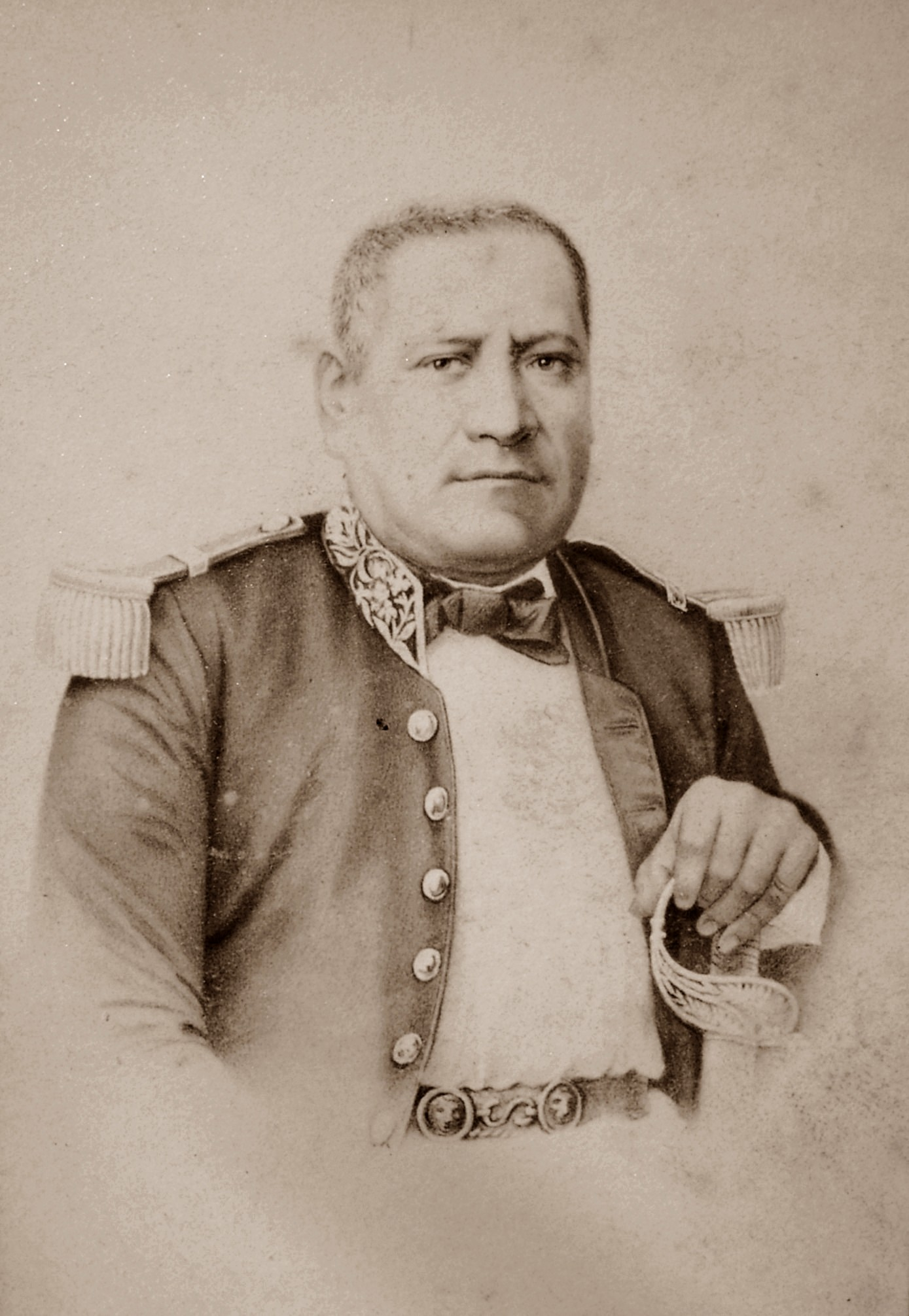 Prince Ariifaaite Tenani'a a Hiro; (1820-1873), was the Consort of Queen Pōmare IV of Tahiti.